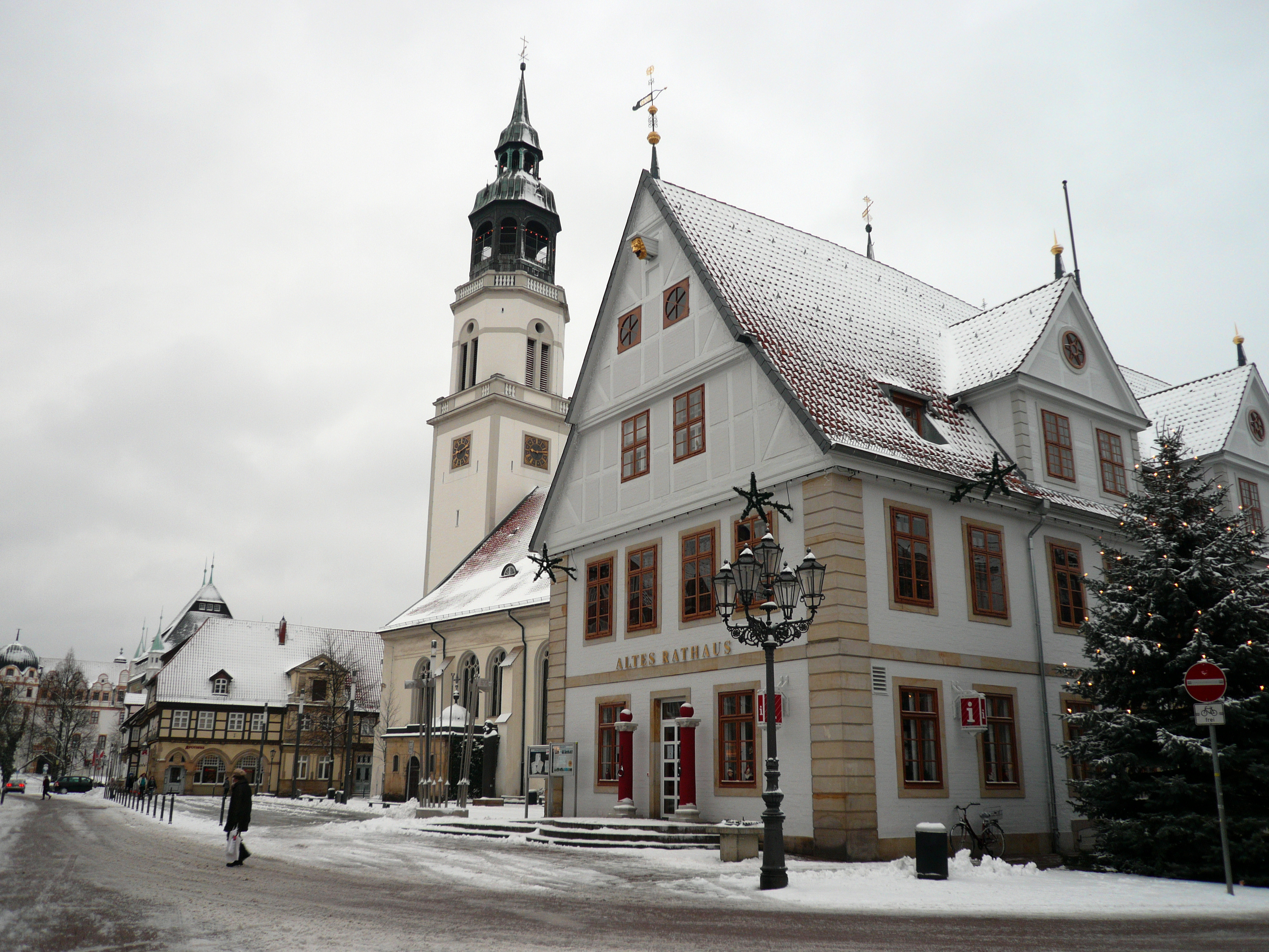 Center town of Celle in Winter